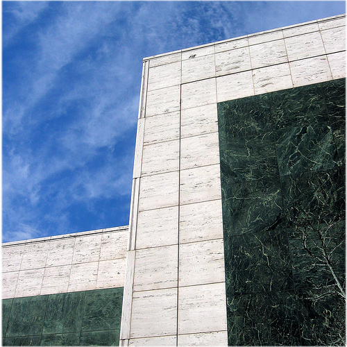 Detail of the Birmingham Museum of Art's Oscar Wells Memorial Building (1959). Green (South American?) Marble and Travertine. Birmingham, Alabama, USA